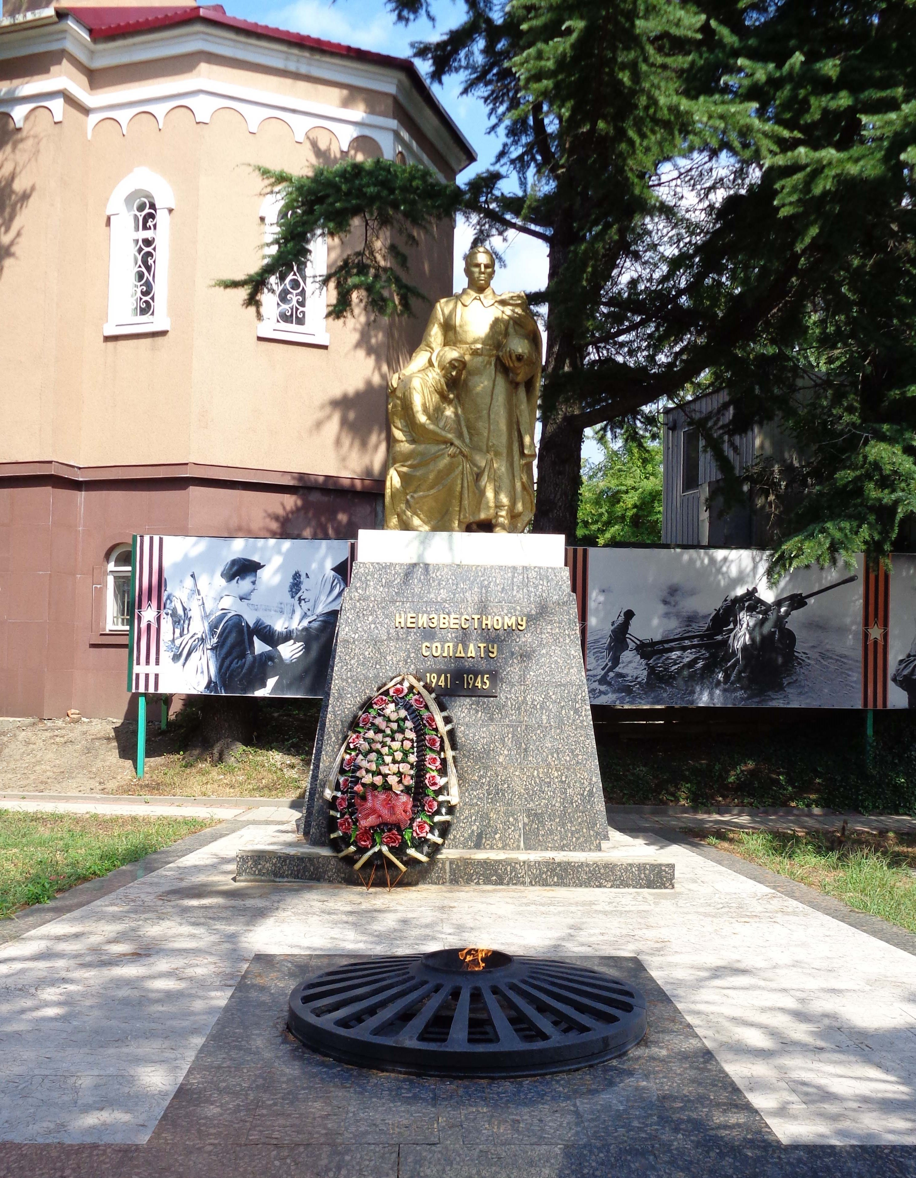 Tomb of the Unknown Soldier in Tuapse (located at 8 Poletaeva St.)